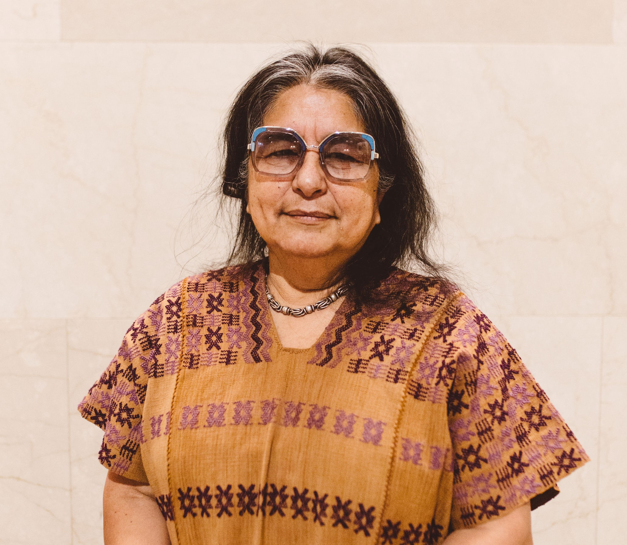 Image of fiber artist Conseulo Jimenez Underwood.